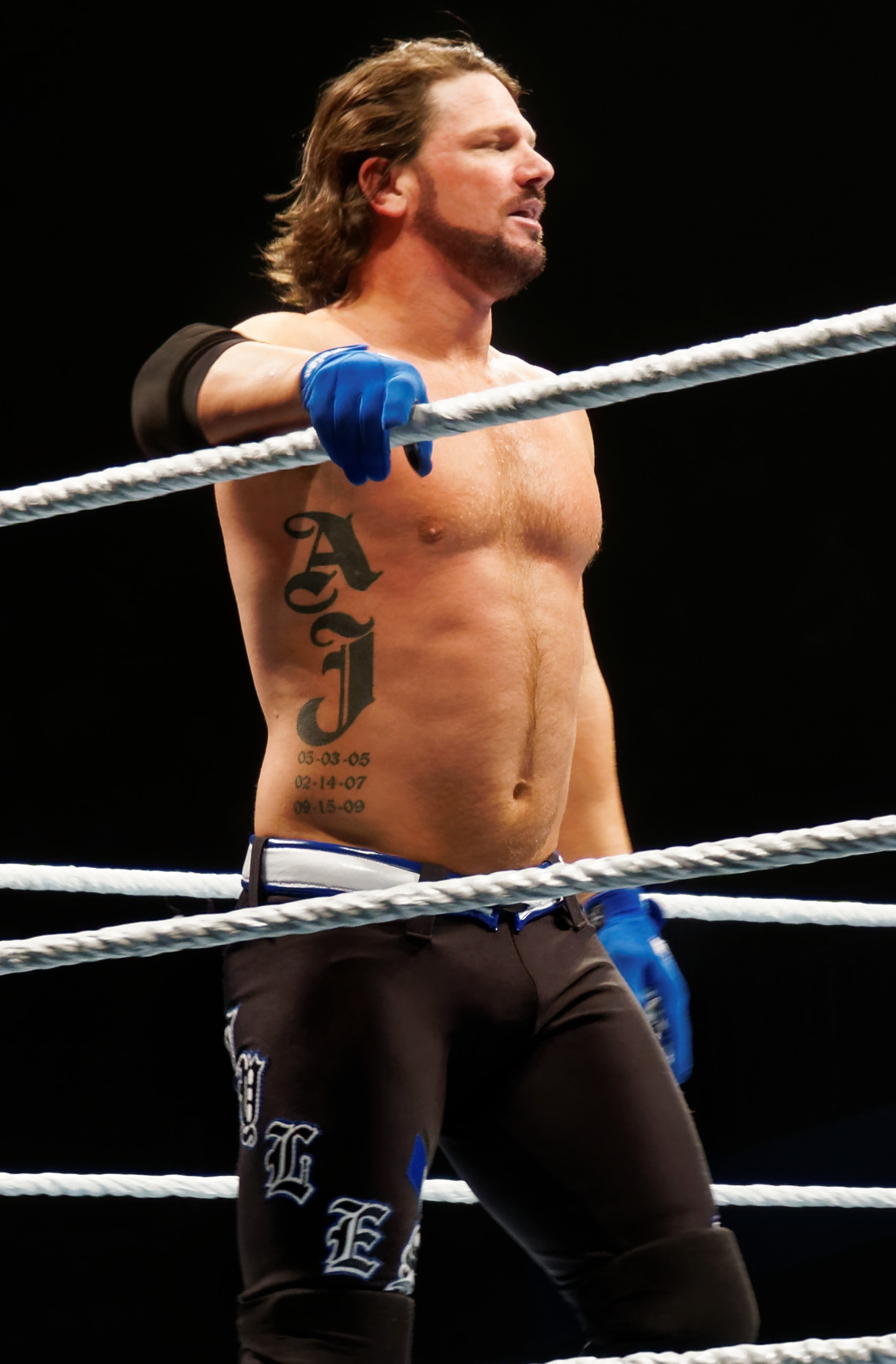 AJ Styles in April 2016